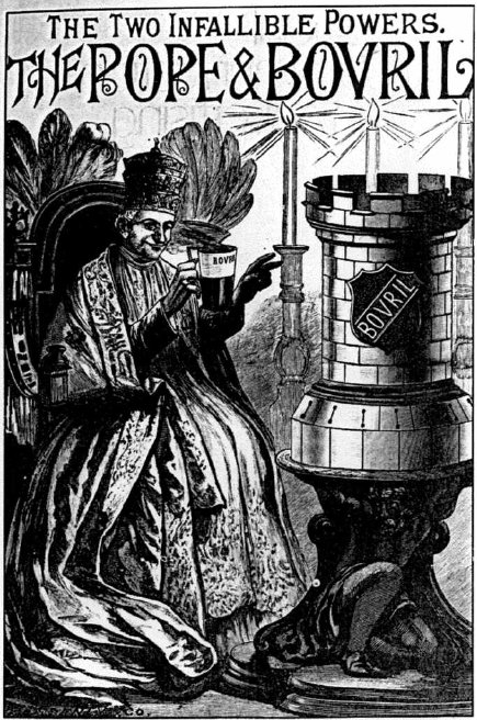 Advertisement for Bovril, early 1900's Place - Great Britain Subjects Depicted - Bovril holds the unusual position of having been advertised with Papal approval. An advertising campaign of the early 20th Century in Britain depicted the Pope seated on his throne, bearing a mug of Bovril. The campaign slogan ran: "The Two Infallible Powers - The Pope & Bovril".